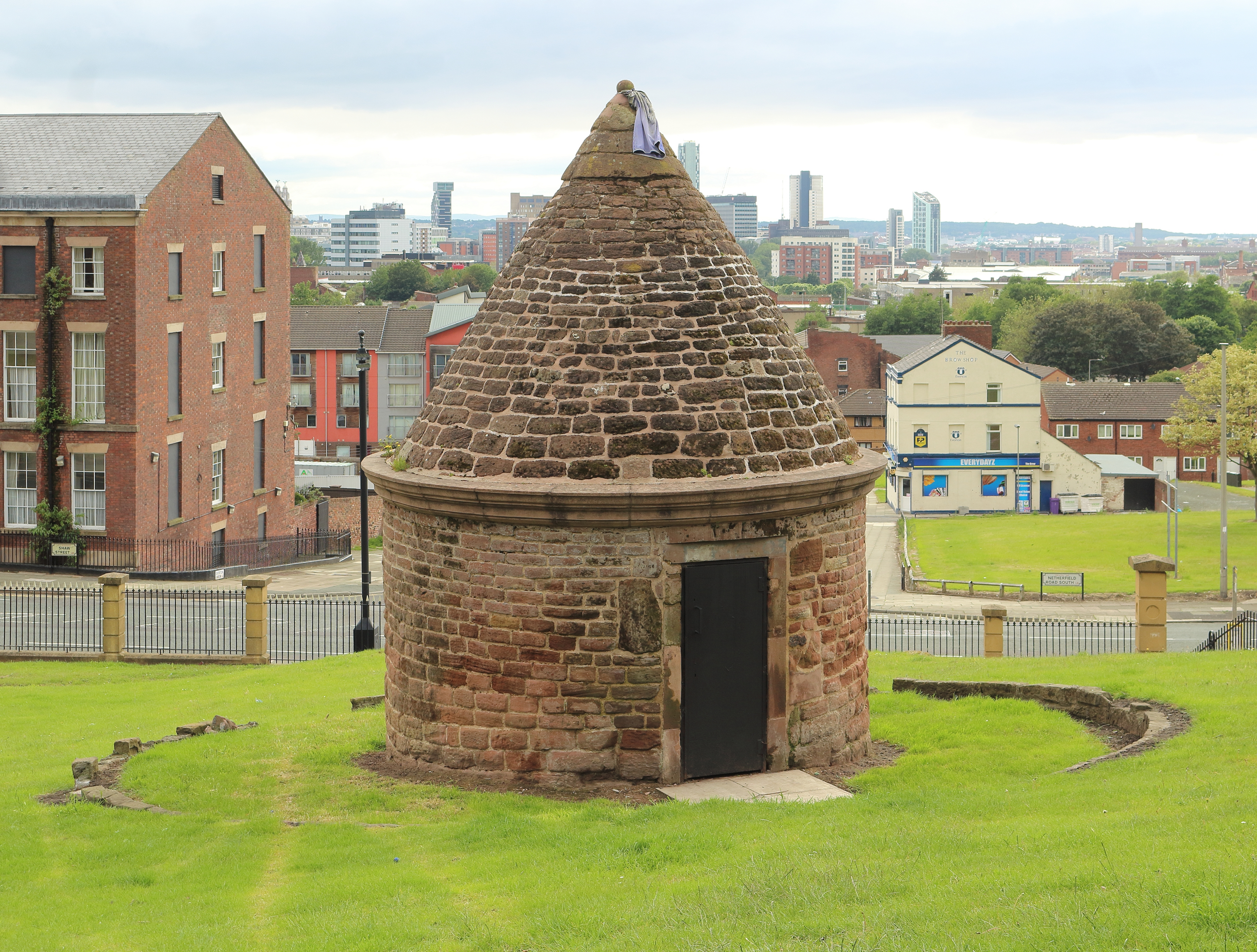 Grade II listed former overnight lockup for drunks. Behind are Shaw Street and beyond, Liverpool Waterfront buildings.